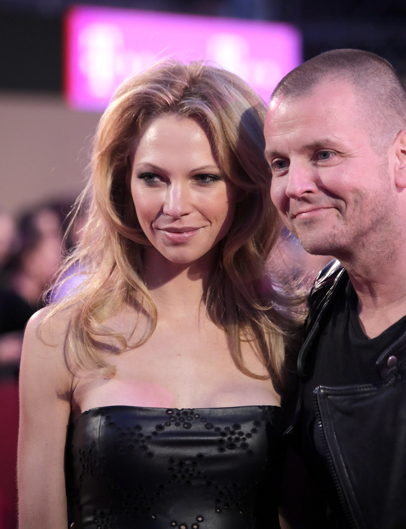 Birte Glang and Moguai on the 'magenta carpet' at Life Ball 2013 at the square in front of the city hall of Vienna, Vienna, Austria.